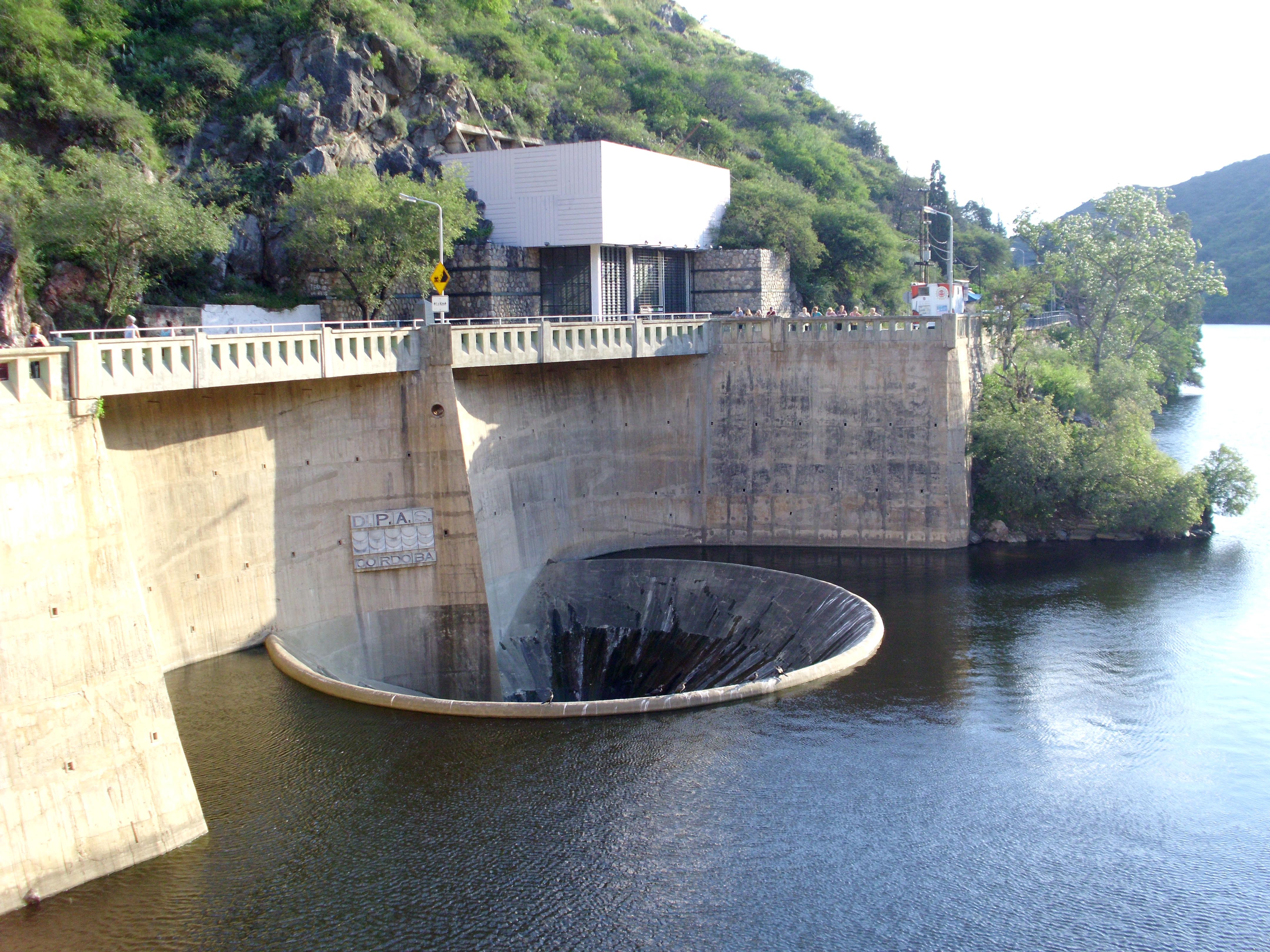 Funnel weir of the San Roque Dam. In Córdoba Province, Argentina. The place is a tourist atraction.